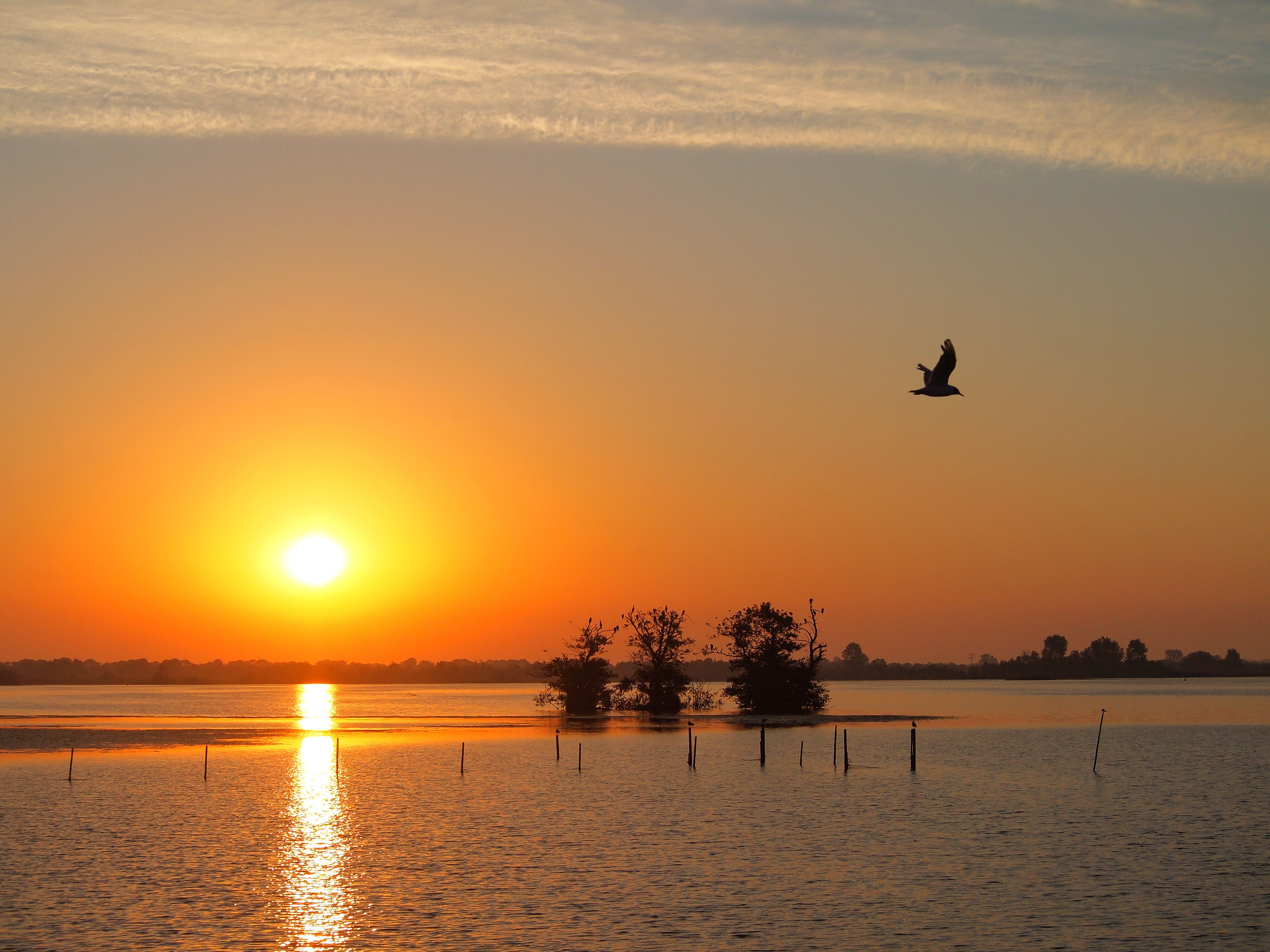 The Leyen is an artificial lake that is the result of peat mining. There are a few island that were used to dry the peat